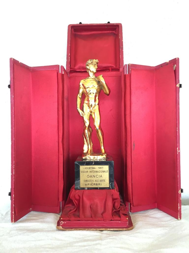 Cortina - 1967 - GANCIA International Oscar - Homage to art to Pierbrì